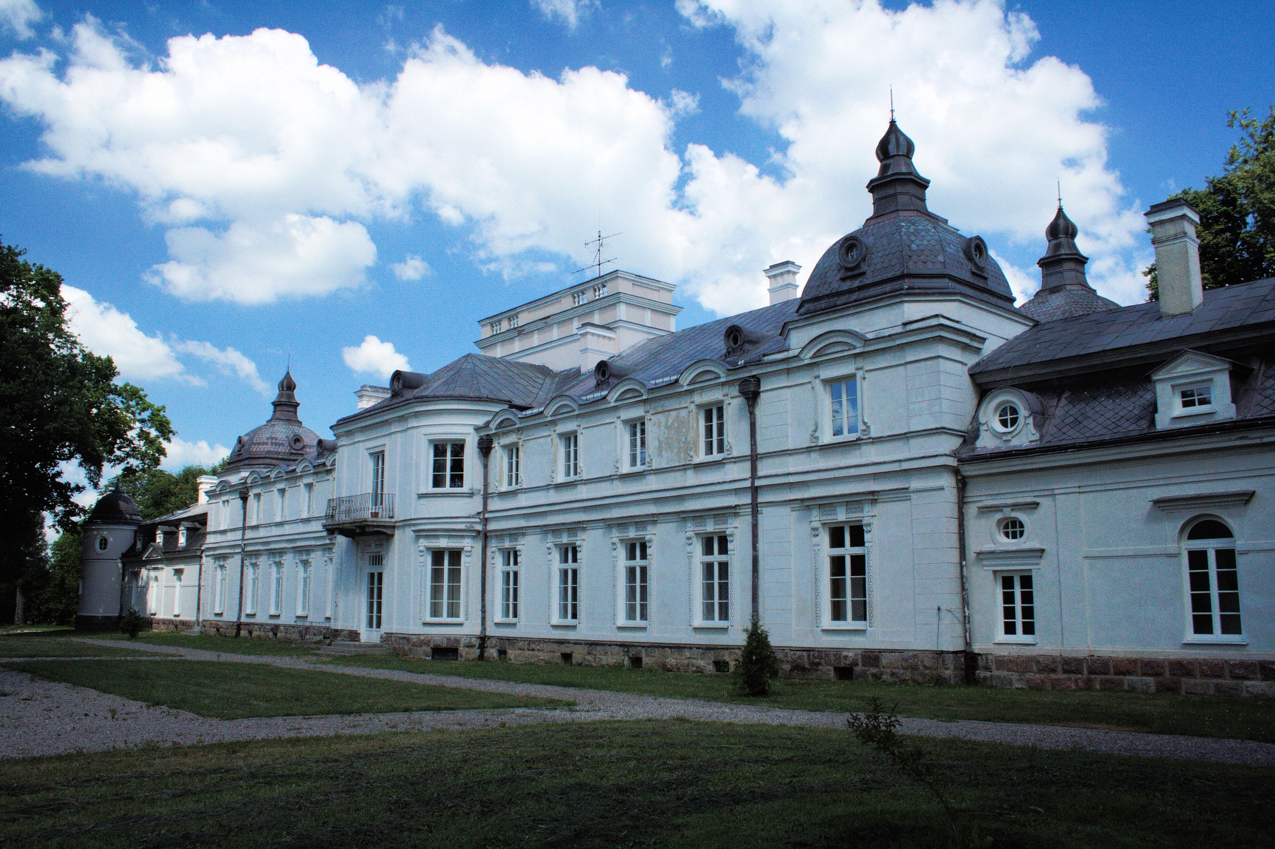 The Ossoliński Palace in Rudka (Poland) - backs